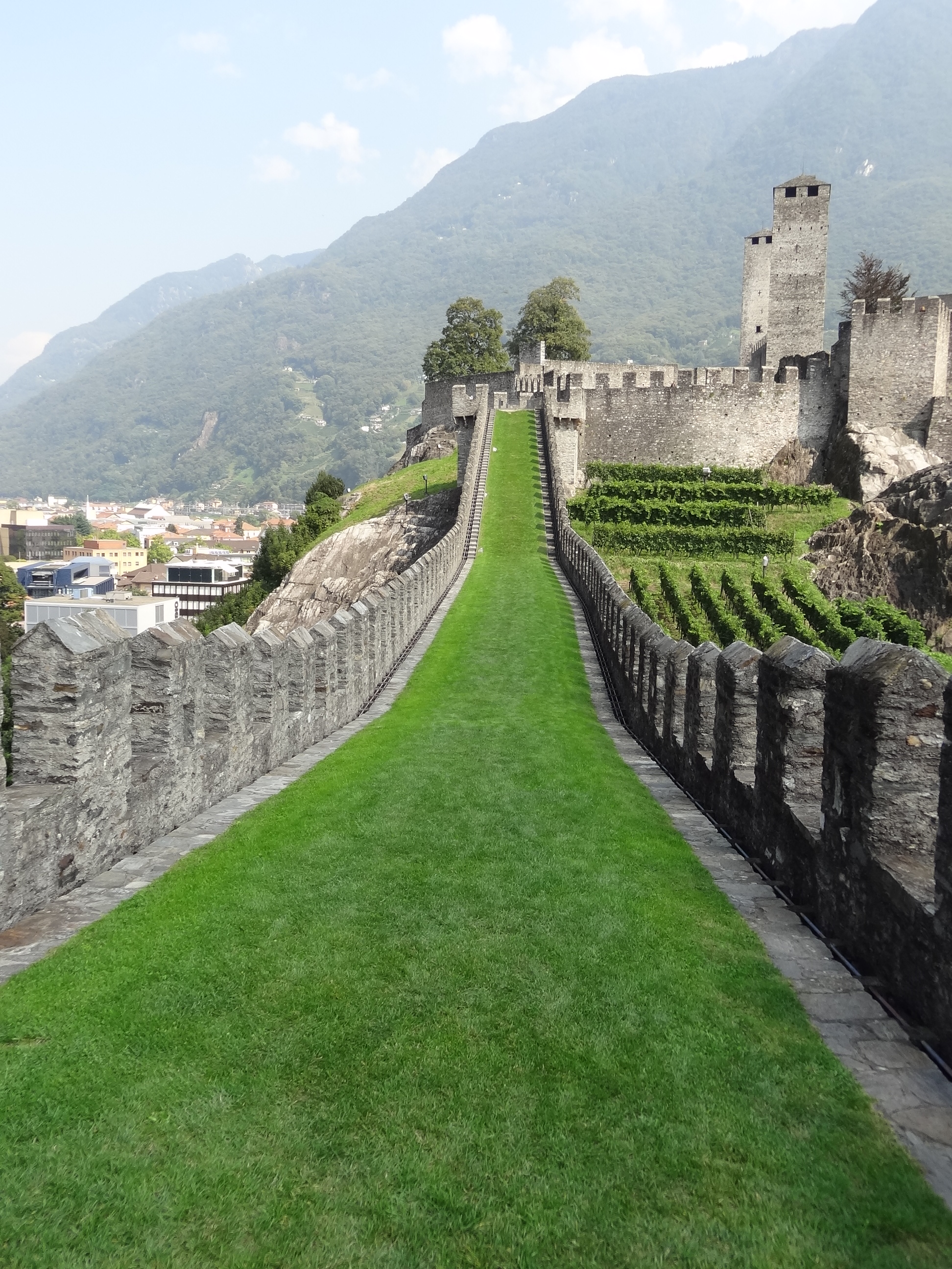 Murata e fortificazioni Bellinzona